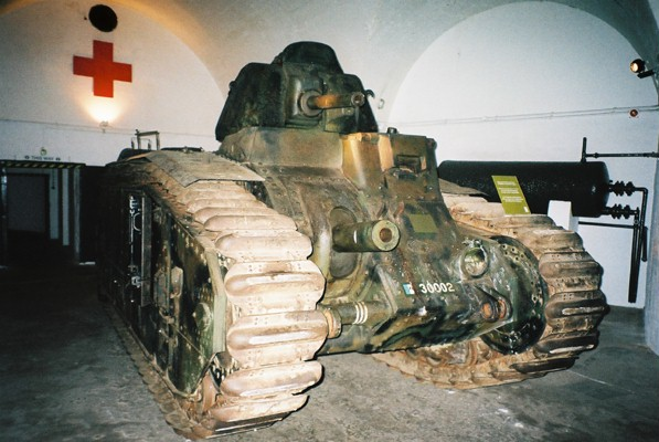 French Renault Char B1 bis tank, with German 'B2' modifications, owned by Bovington Tank Museum and show here displayed at the Jersey War Tunnels.